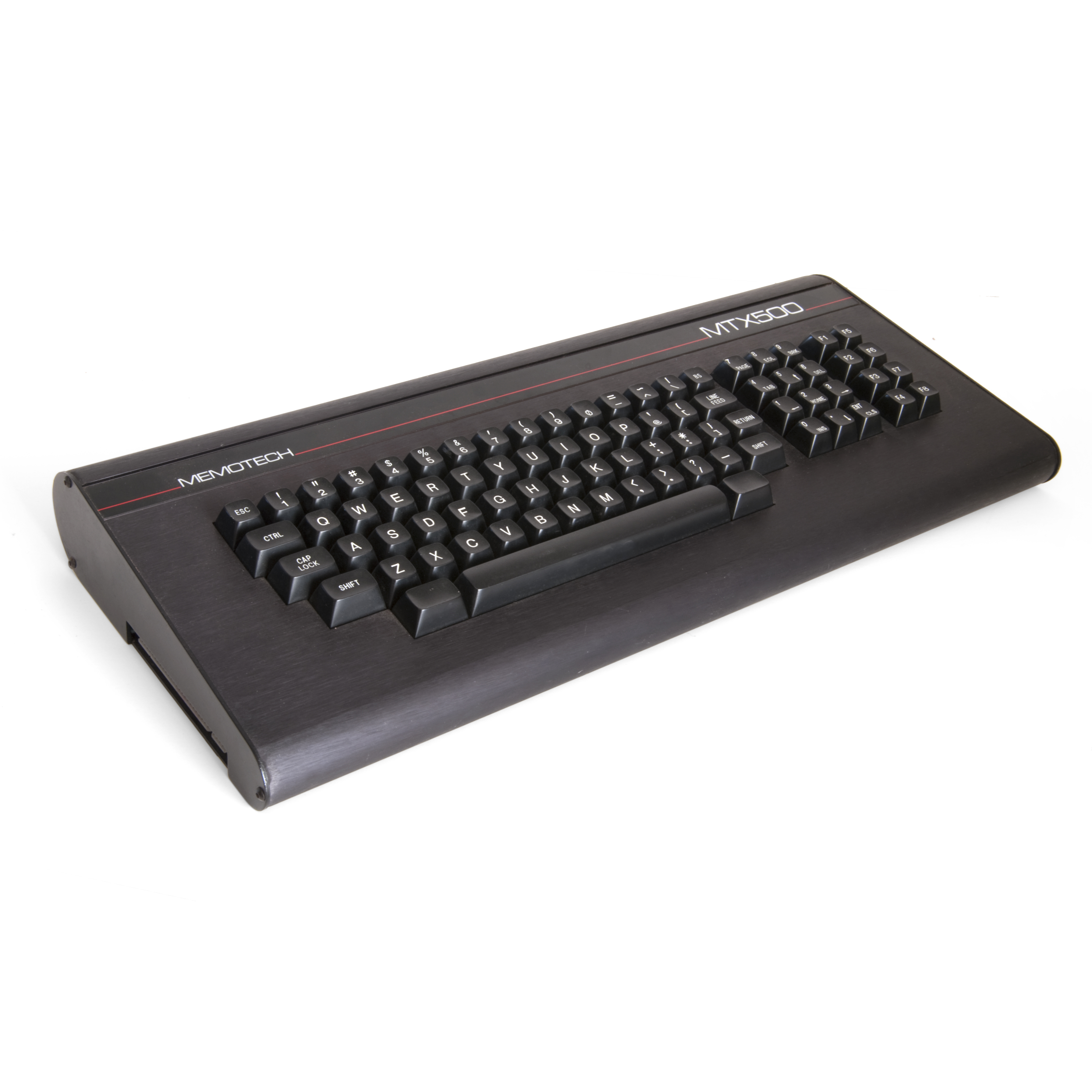 Memotech MTX500 home computer.